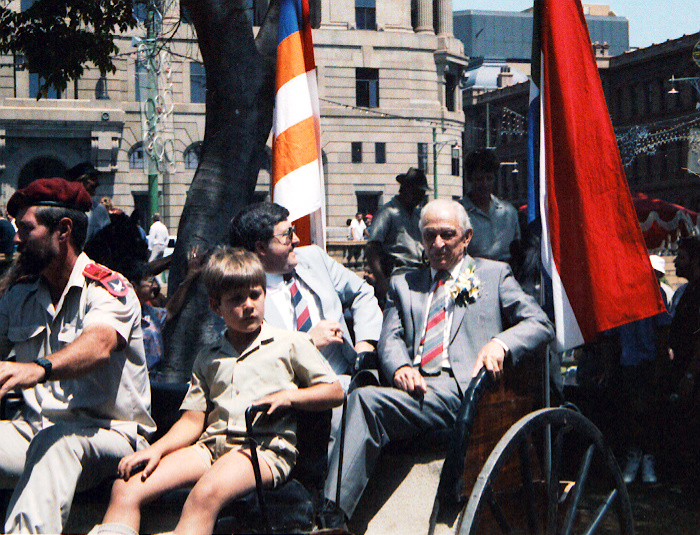 Arch-conservative Herstigte Nasionale Party (HNP) leader Jaap Marais arrives in a horse-drawn buggy at Church square, Pretoria